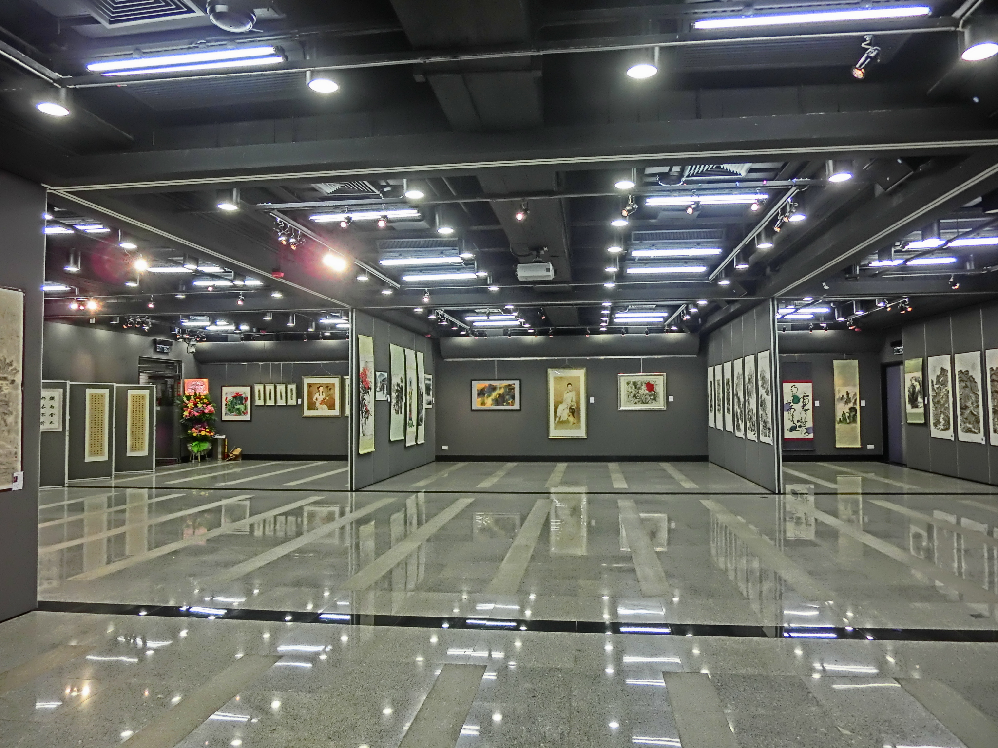 上環市政大廈, Sheung Wan Municipal Services Building, Sheung Wan, Hong Kong